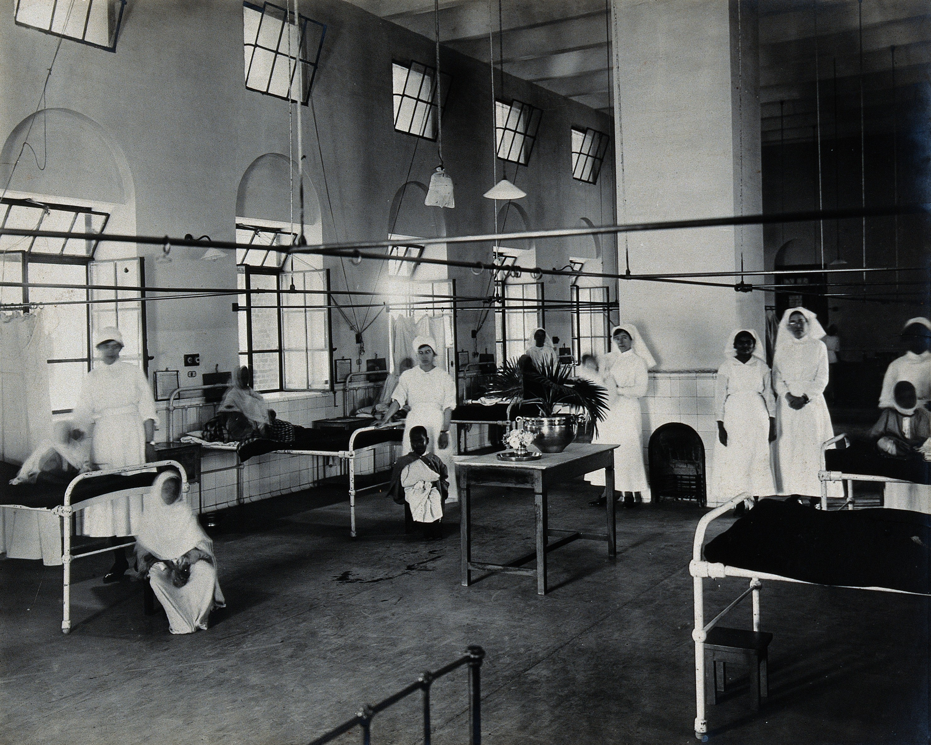 Lady Hardinge Medical College and Hospital, Delhi: nurses on a ward. Photograph, 1921. Iconographic Collections Keywords: Lady Hardinge Medical College and Hospital (Delhi, India); ic